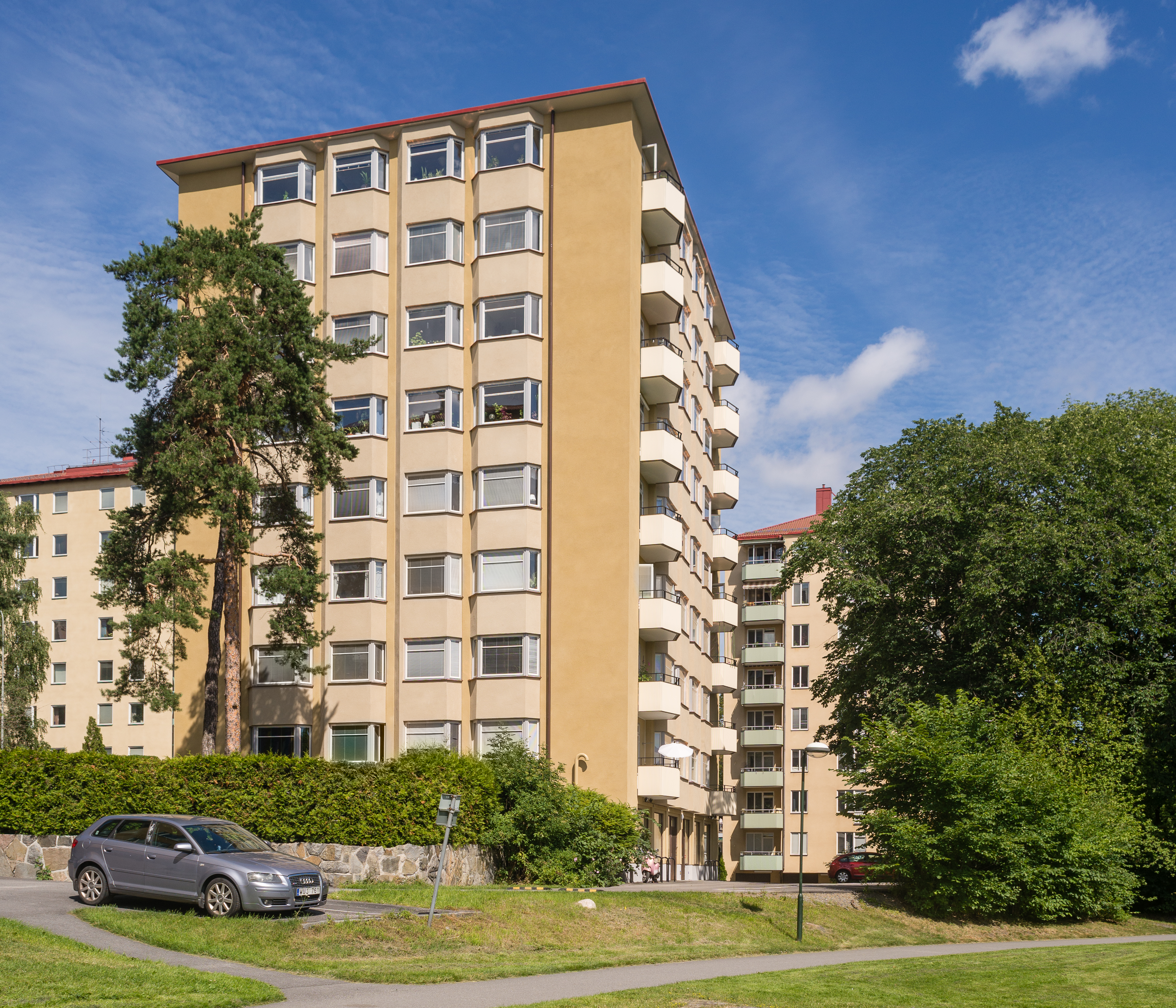 Building in Årsta, Stockholm. Builty 1946. Architects: Carl-Axel Acking and Sven Hasselgren.